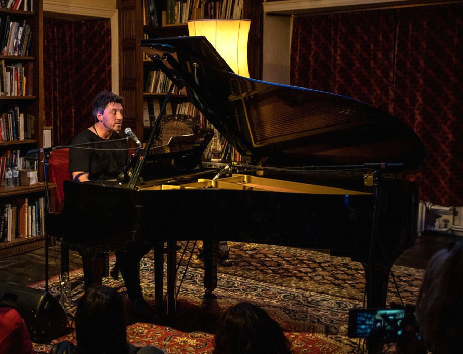 Will Lawton performing solo at Malmesbury Acoustic Sessions in Malmesbury in March 2019. The venue is the library of Abbey House. Small, seated intimate audience of 80 people.